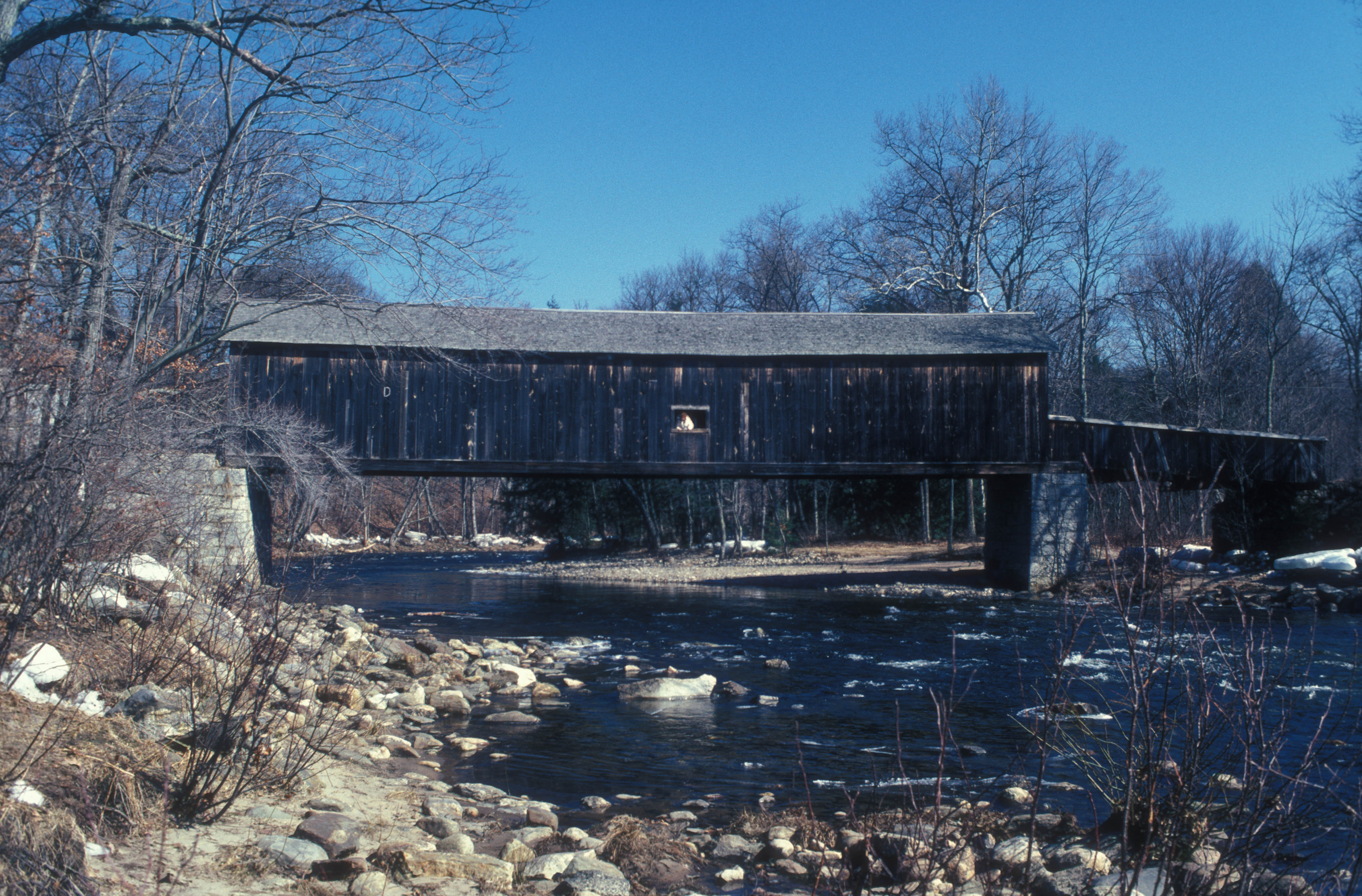 LOCATED IN EAST HAMPTON; 80’, 1873 HOWE OVER SALMON RIVER